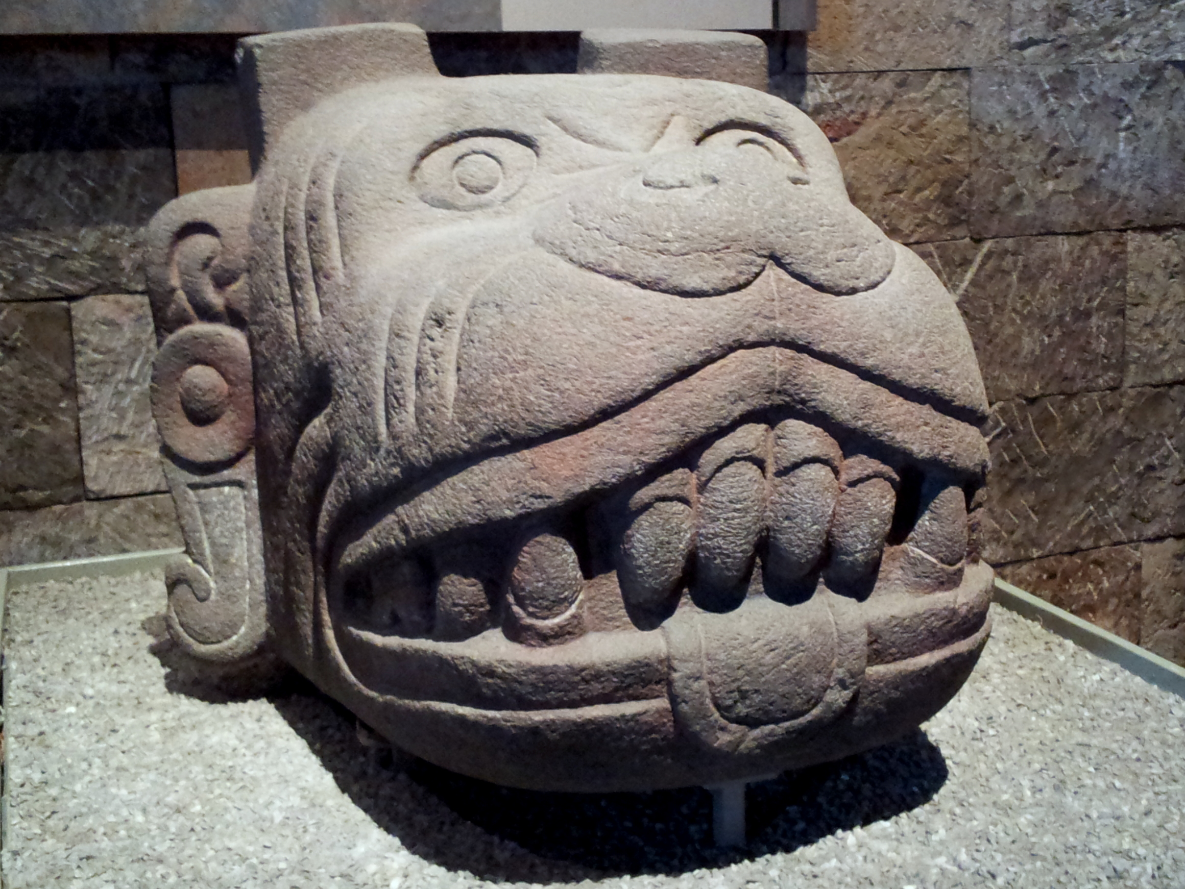 Aztec sculpture representing the head of the aztec god Xolotl, exposed in the mexica room of the Museo Nacional de Antropología de México. The sign below, on the right side, tells that this sculpture was found in the historical center of Mexico City.